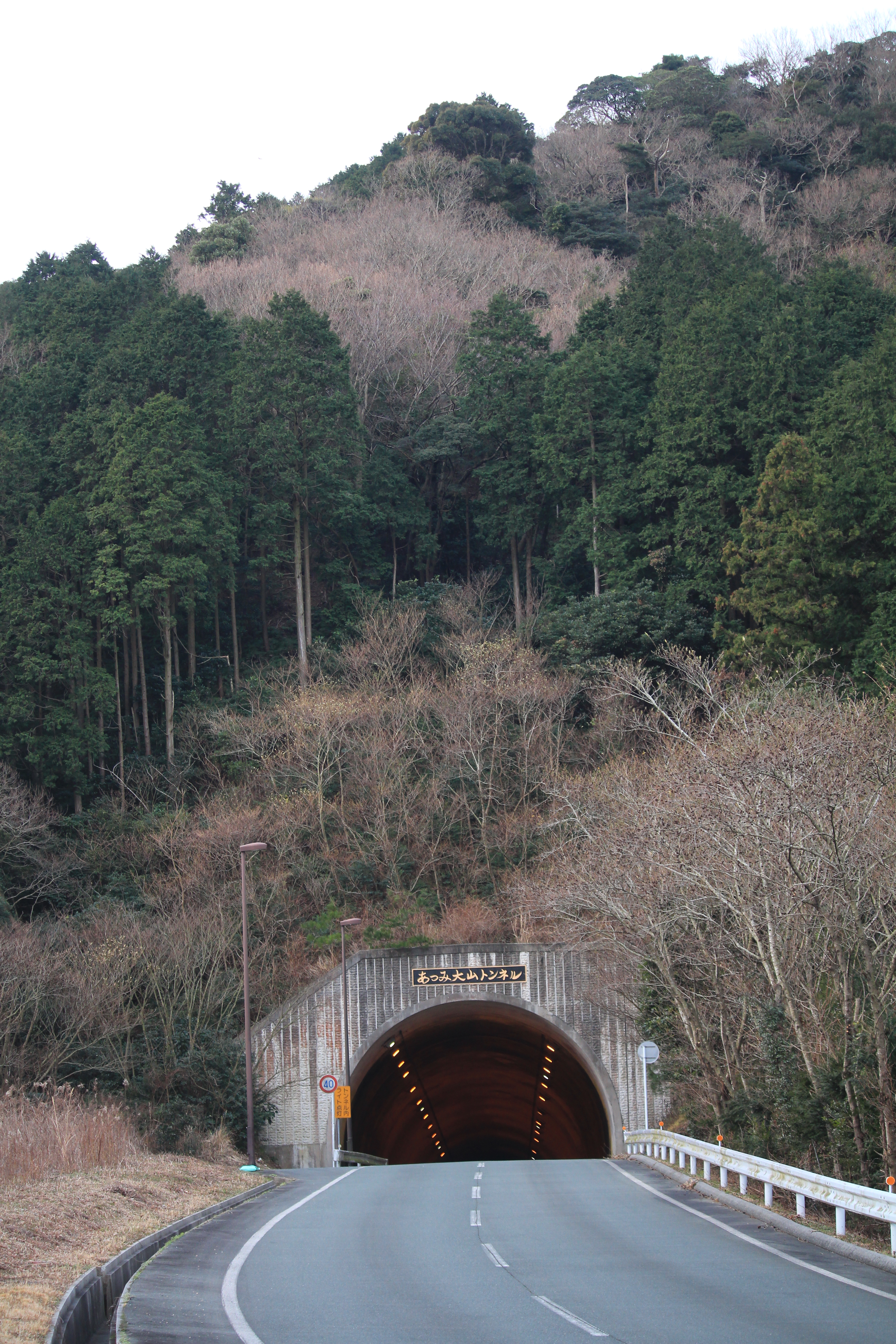 Northern entrance of Atsumioyama Tunnel in Tahara, Aichi prefecture, Japan.